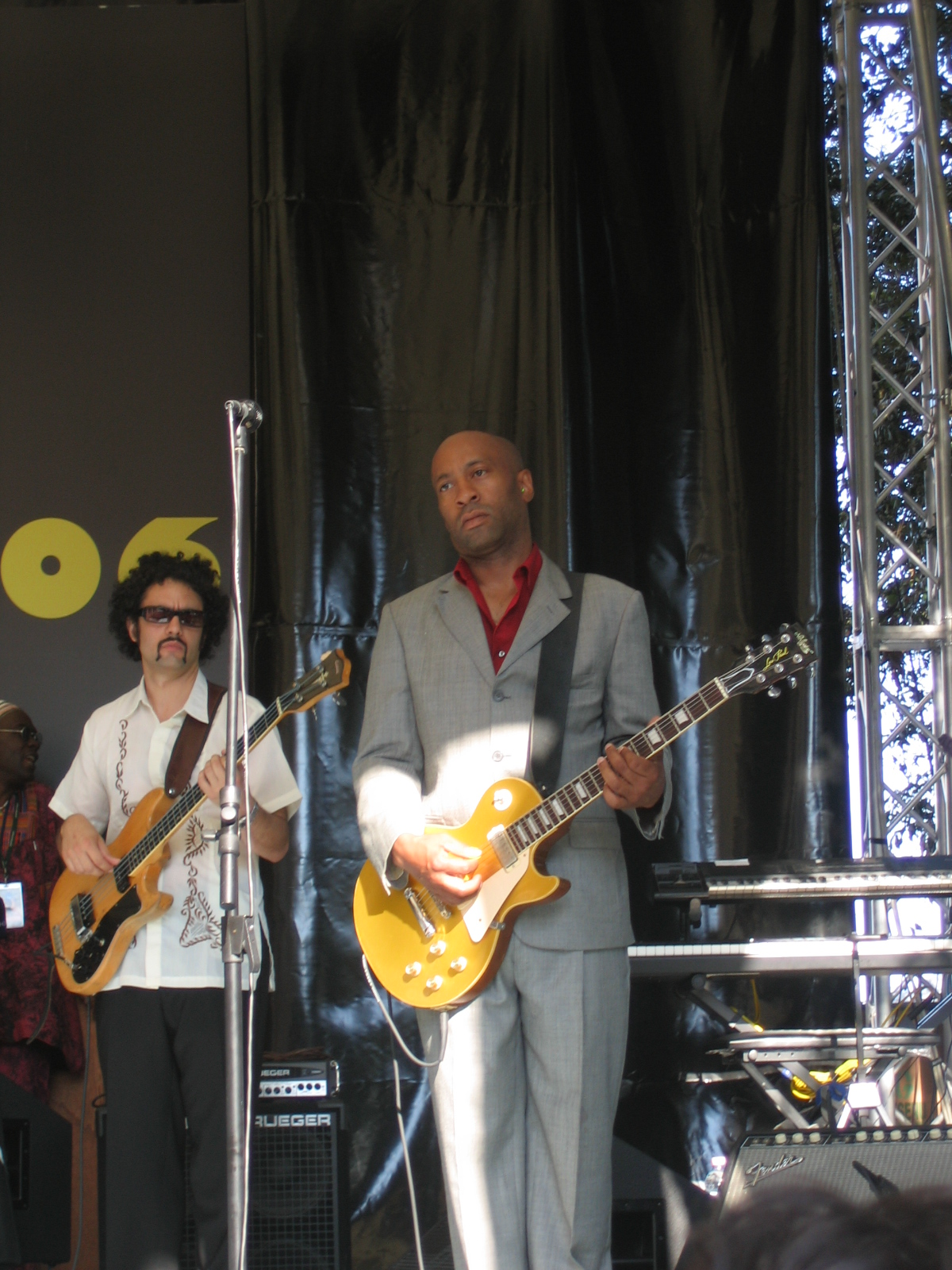 Sharon Jones and the Dap Kings performing live at Umbria Jazz 06, Perugia, Italy, 16 july 2006. Closeup of Bosco "bass" Mann and Binky Griptite